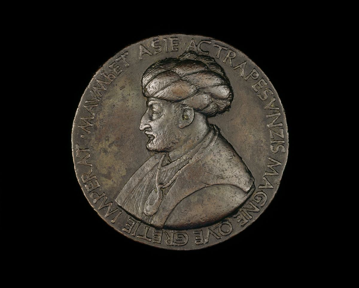 Sultan of the Ottoman Empire; Mehmed II (Mehmed the Conqueror) (1432-1481).